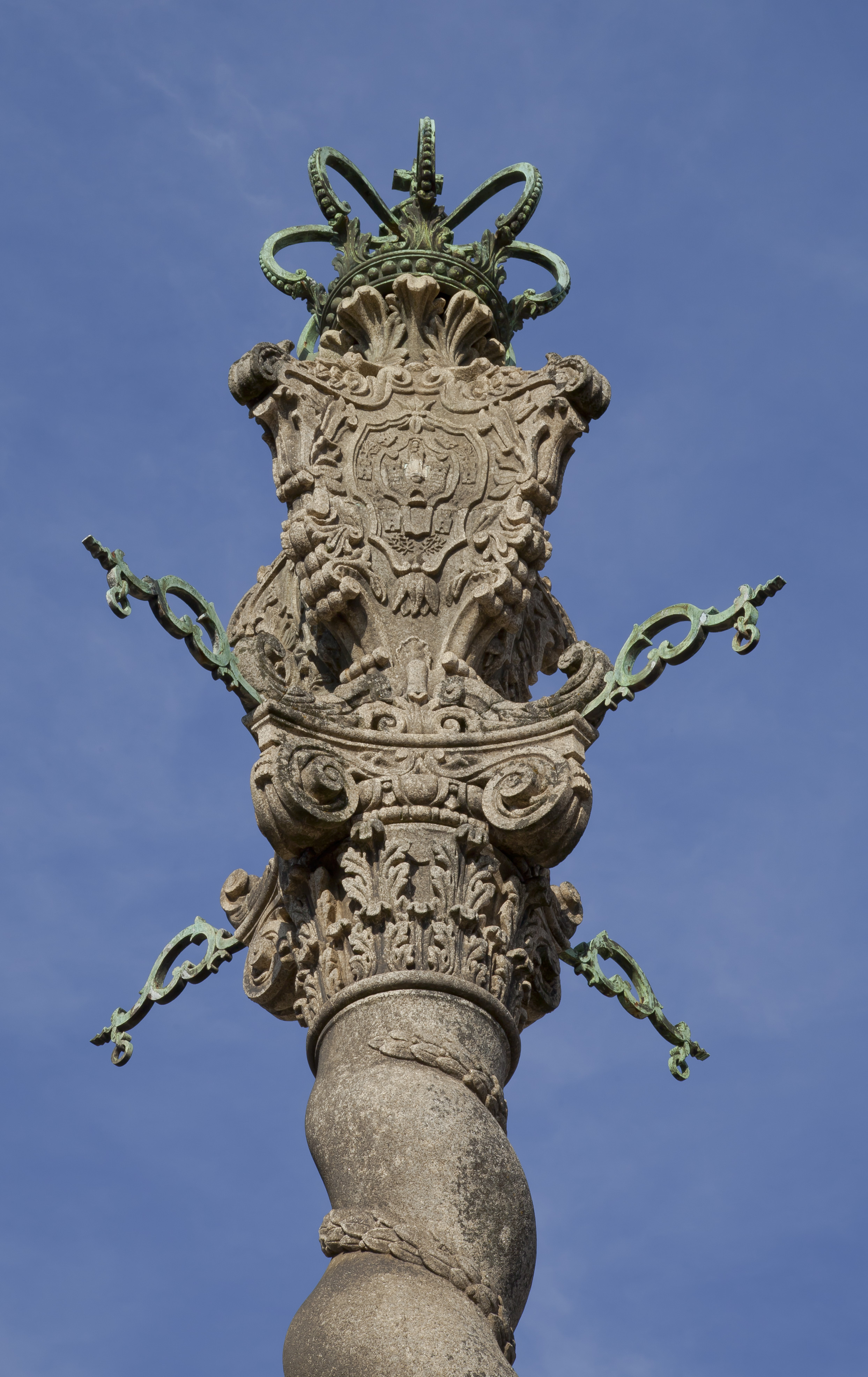 Pelourinho do Porto, Porto, Portugal